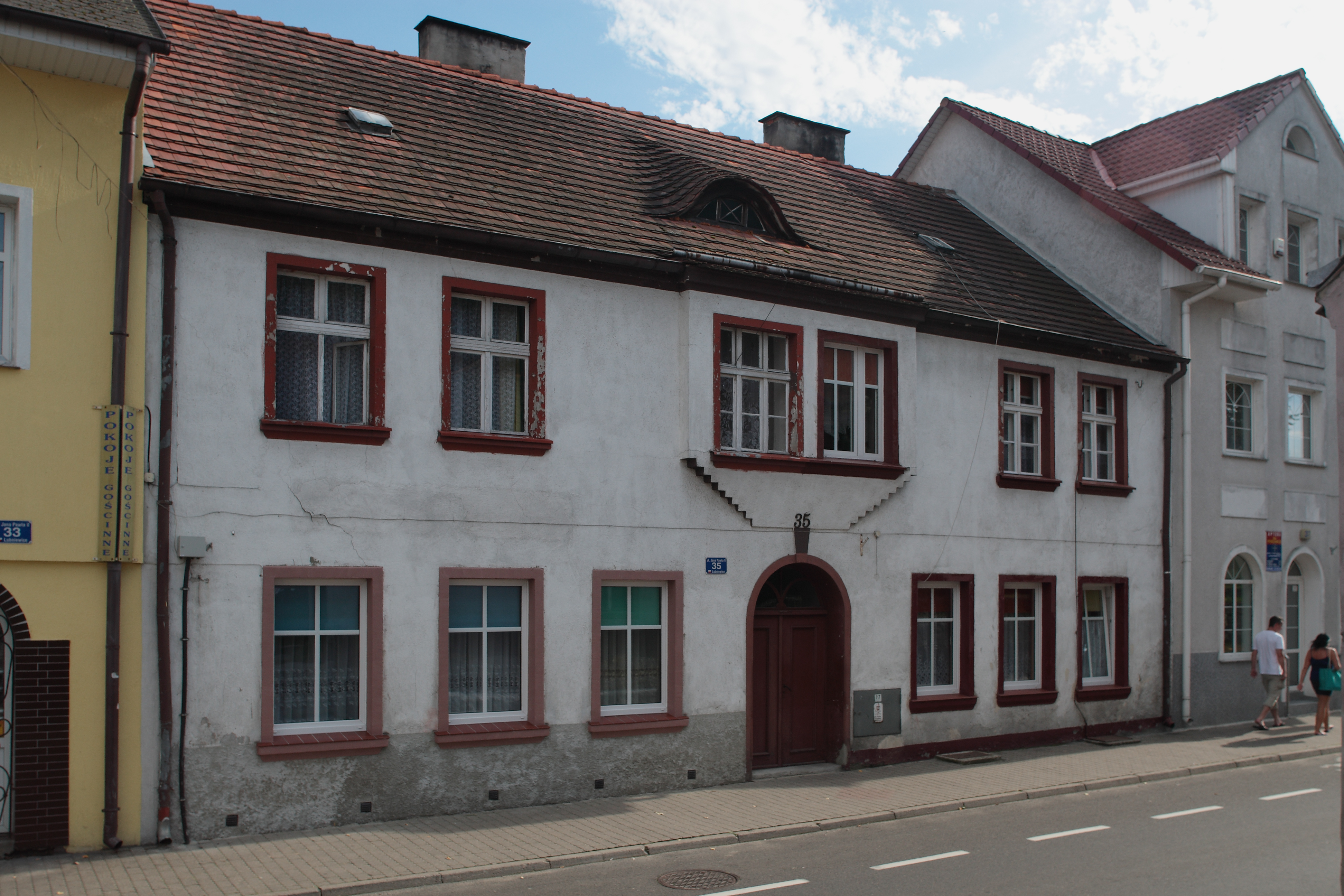 Lubniewice - the house, 1781, XIX